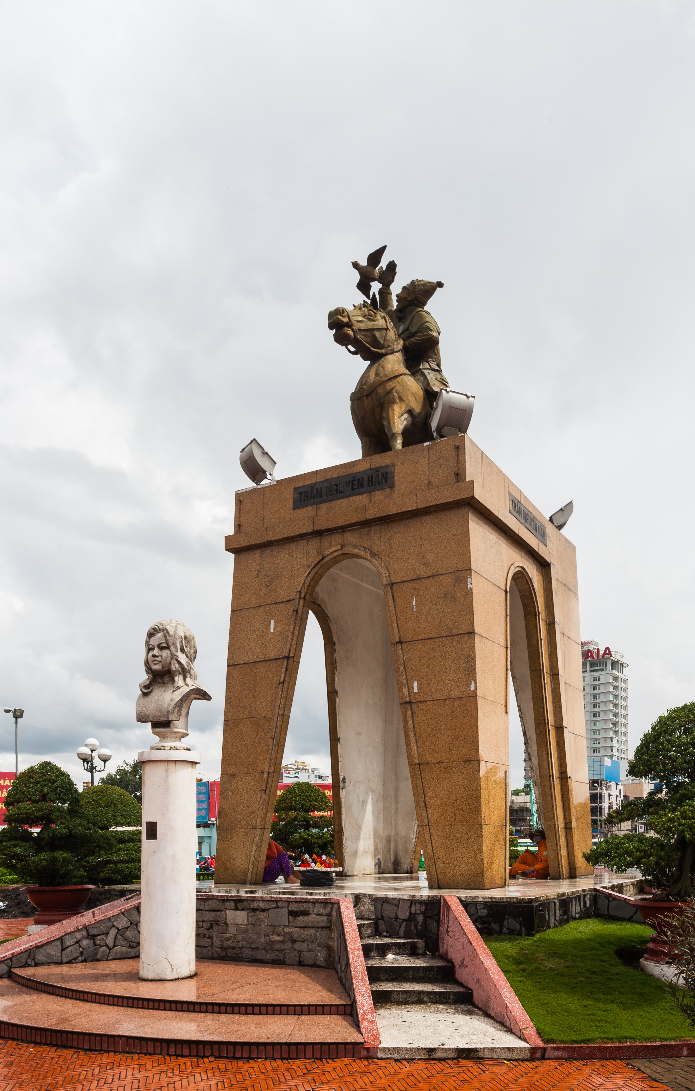 Ben Thanh Market, Ho Chi Minh City, Vietnam